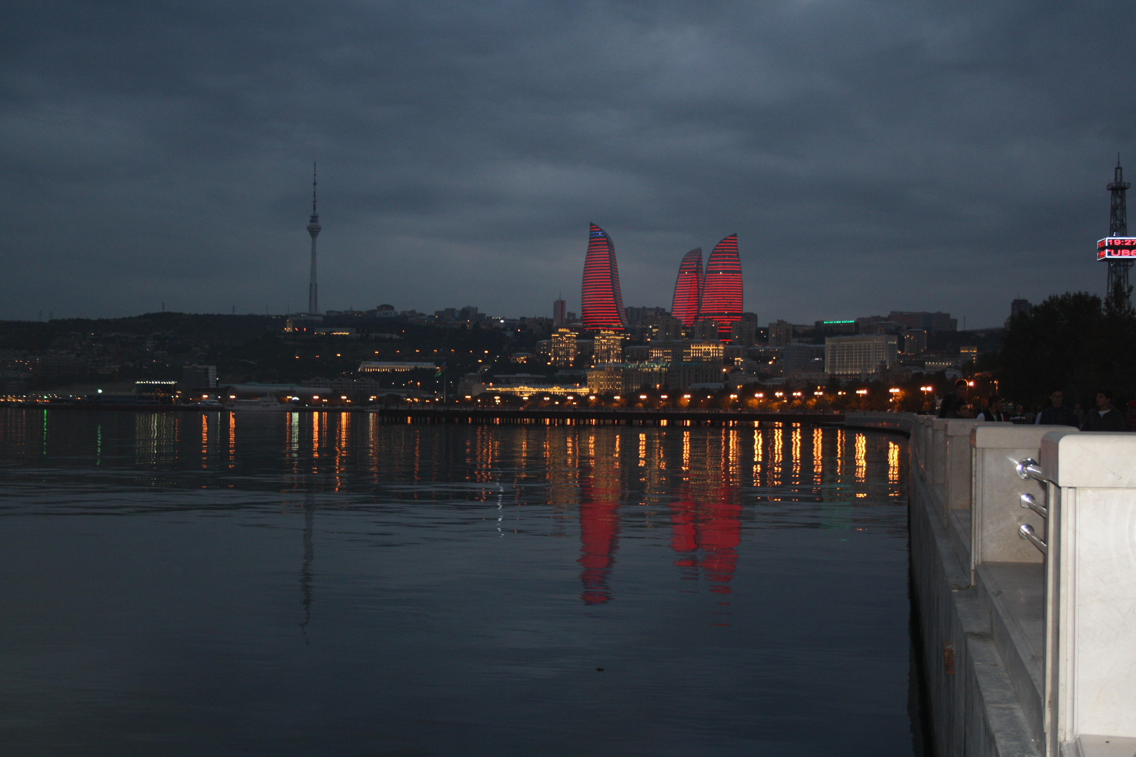 Flame towers from Baku boulevard